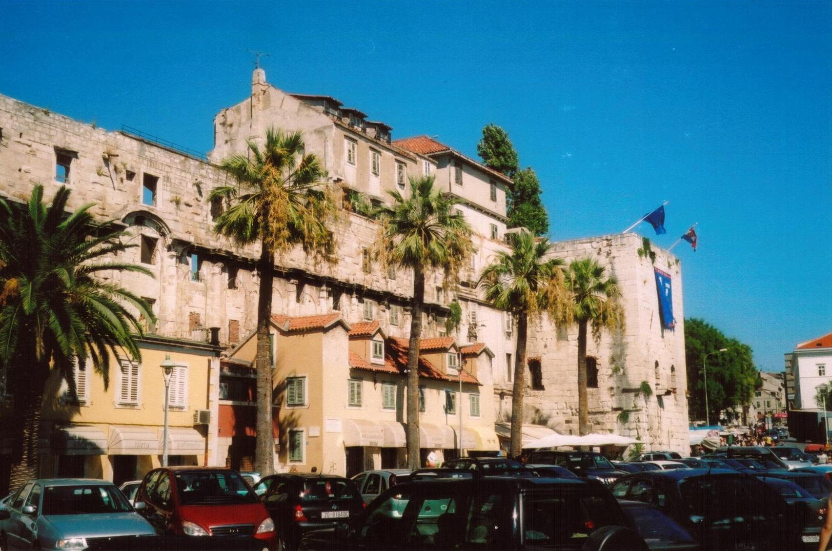 Diocletian's Palace viewed from the south